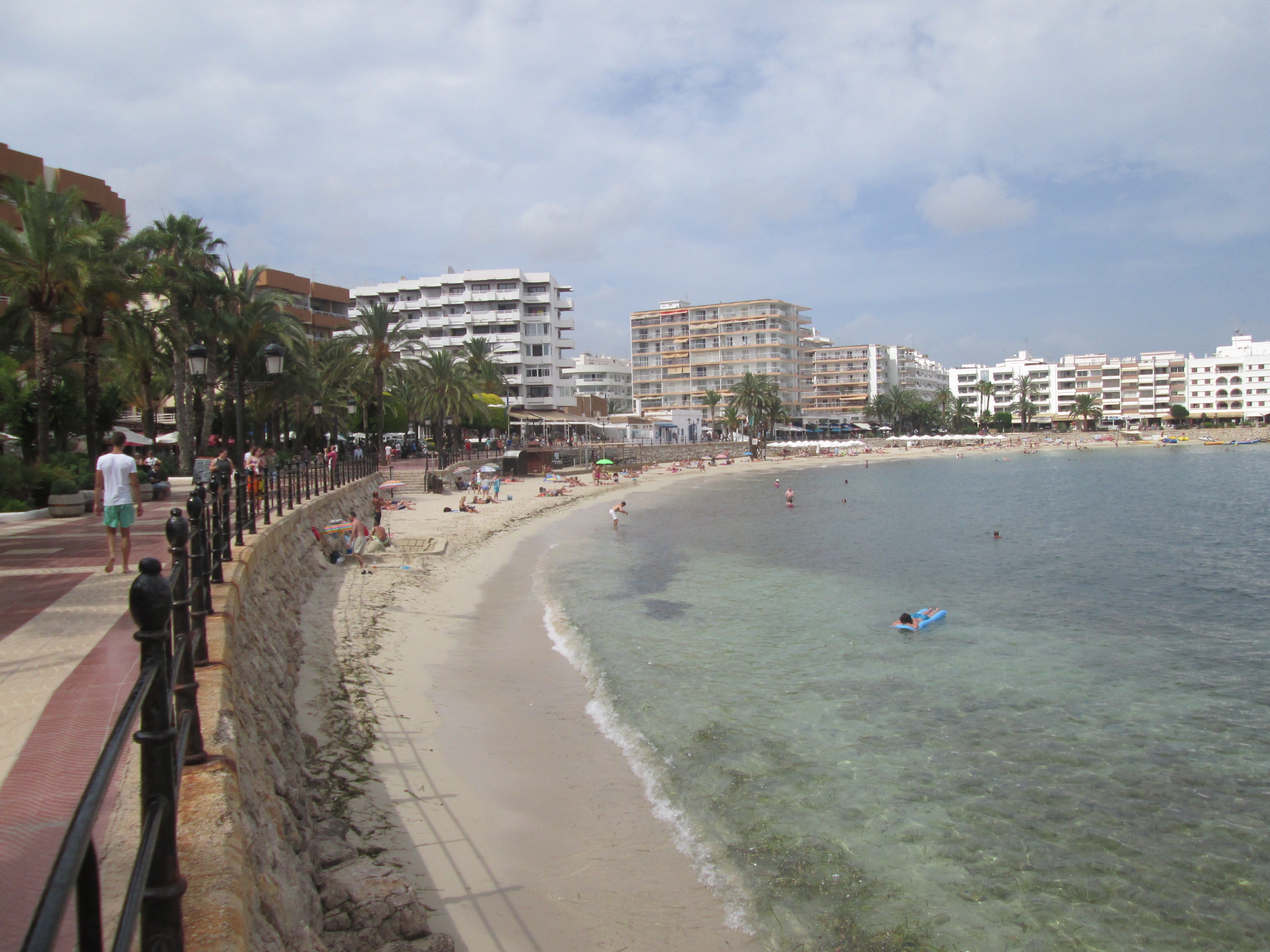 Paseo Maritimo in the town of Santa Eularia des Riu, Ibiza, Spain